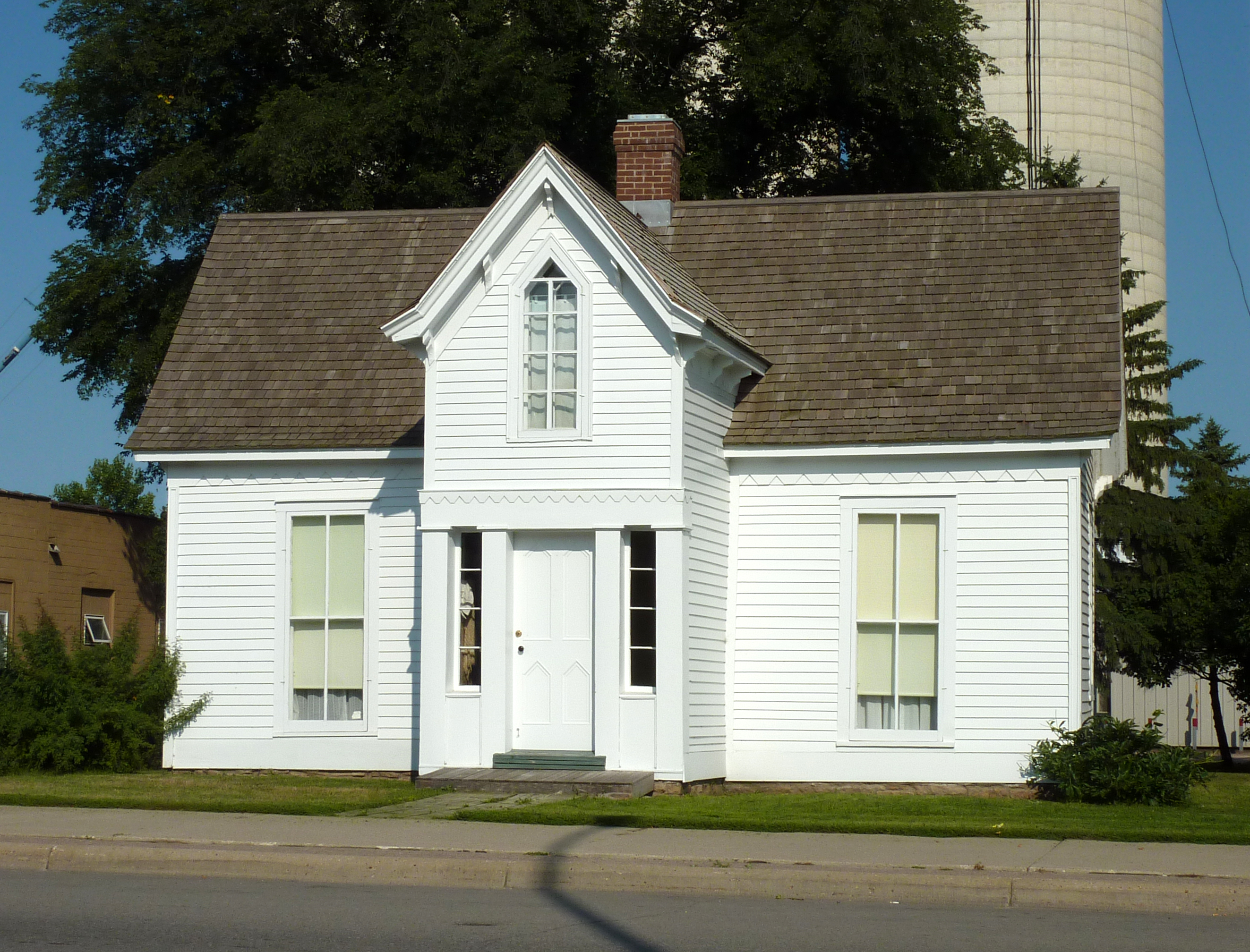 Dr. William W. Mayo House, Le Sueur, Minnesota, USA.